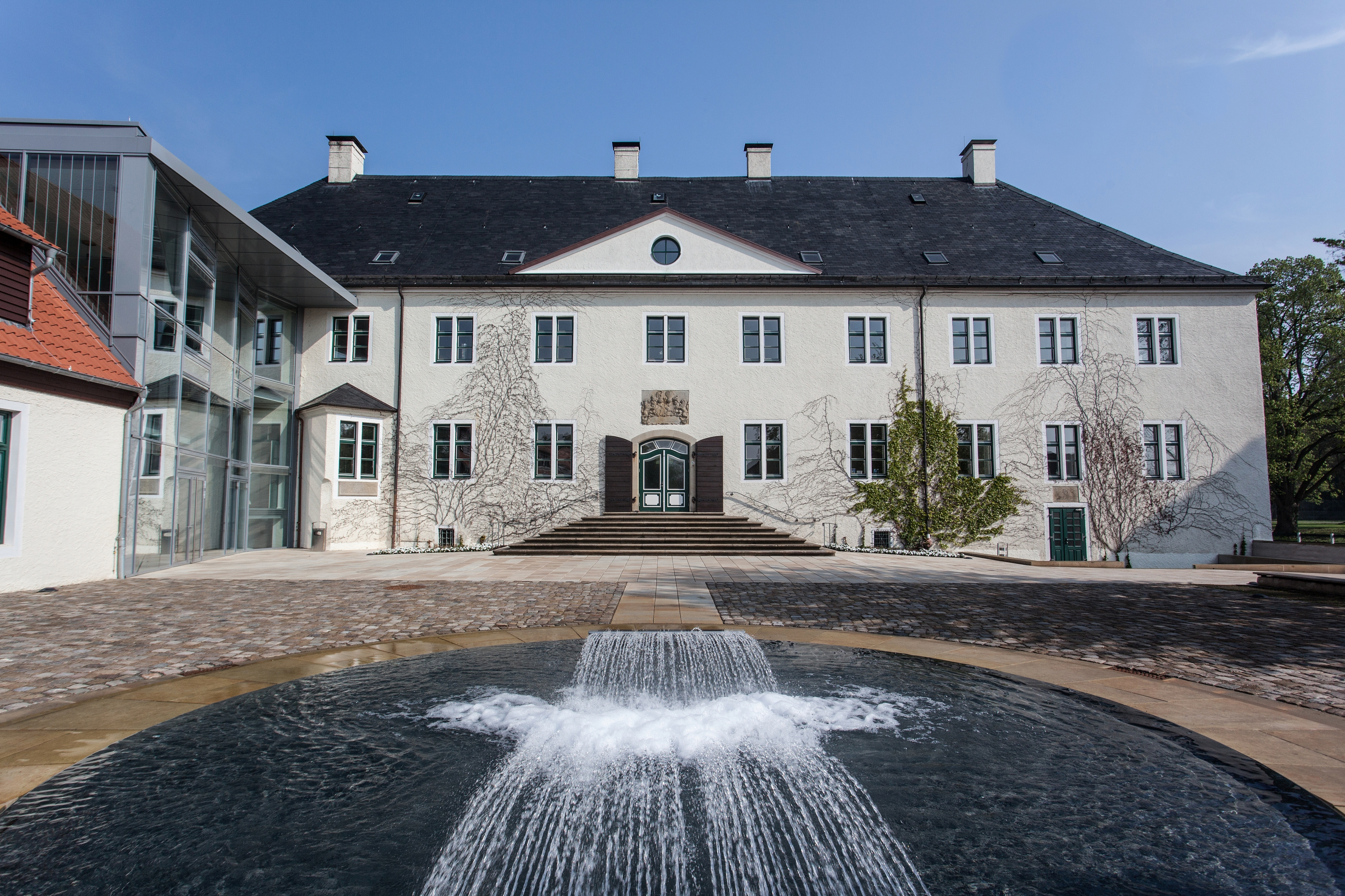 This image shows a heritage building in Germany, located in the North Rhine-Westphalian city Espelkamp (no. 24).